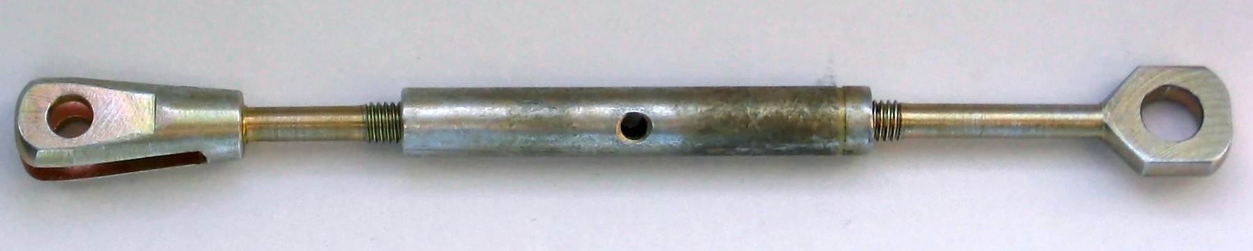 Stretching screw, turnbuckle